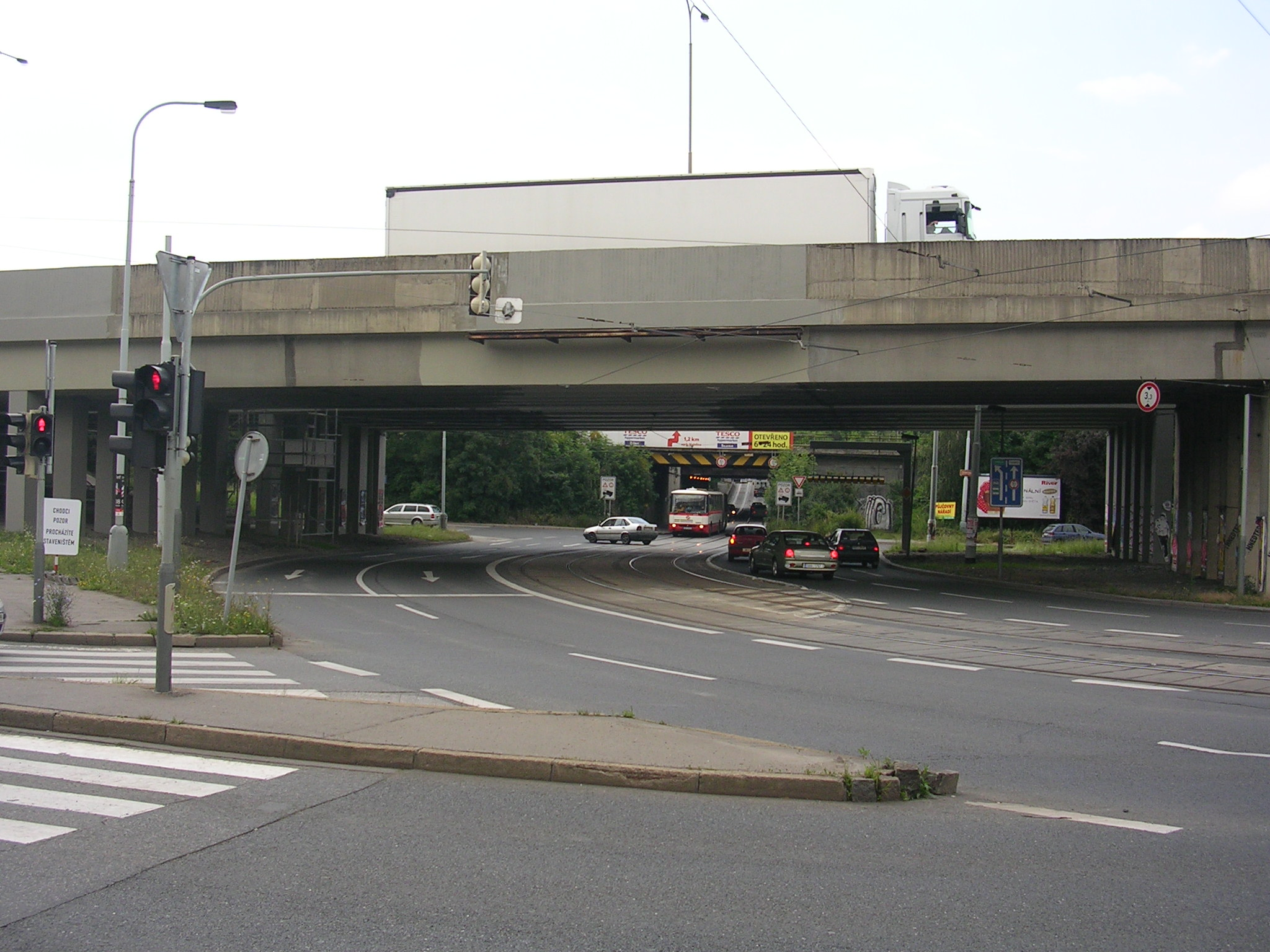 Záběhlice, Prague, the Czech Republic.